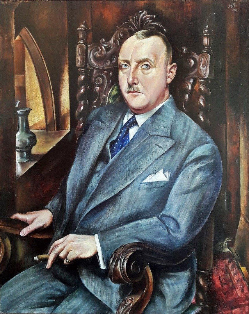 Senator Gustav A. Fuhrmann (1929), Gustav Adolf Fuhrmann: born on 1 May 1881 in Großzschocher bei Leipzig, moved to Rostock in 1910, donated RM 22,000 for the dentist clinics of the University in 1927, died on 26 January 1960 in Wilhelmshaven